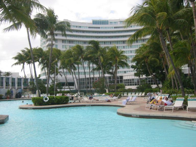 Fontainebleau Hotel, Miami Beach Photo by Jim Rees November 2004